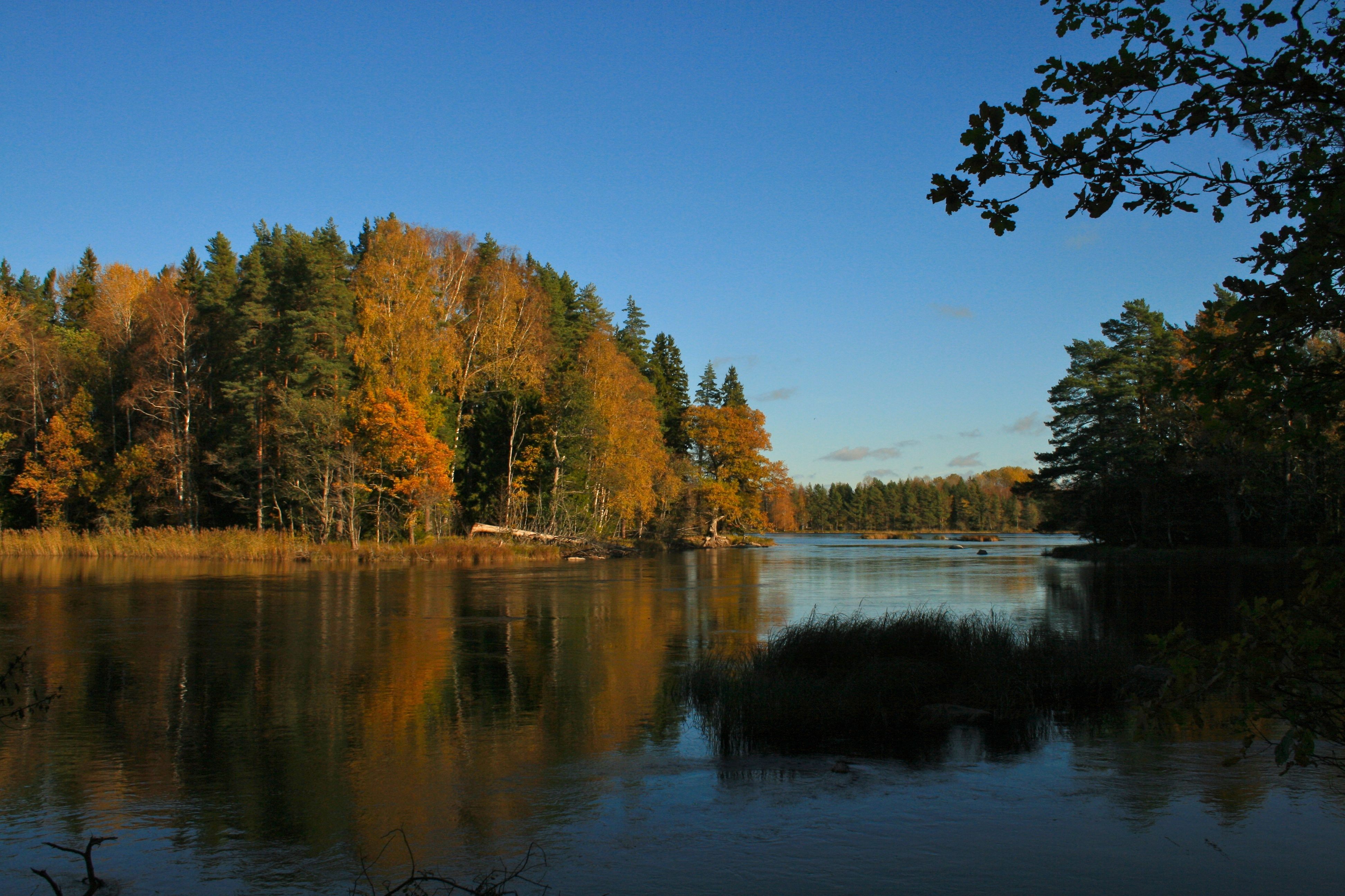 Dalälven, seen from Mattön, Färnebofjärden national park